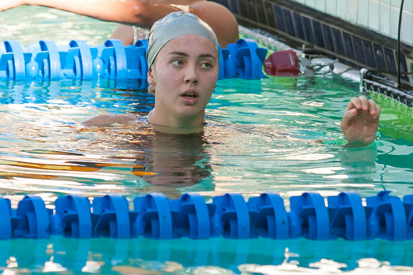 Noemie-Thomas-after-winning 100 fly